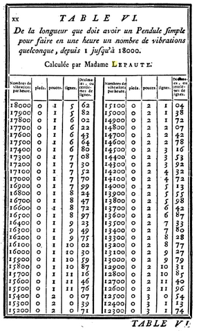 Pendulum's table from the Traité d'horlogerie (1767) by Jean-André Lepaute (1720-1789) calculated by his wife Nicole-Reine (1723-1788)